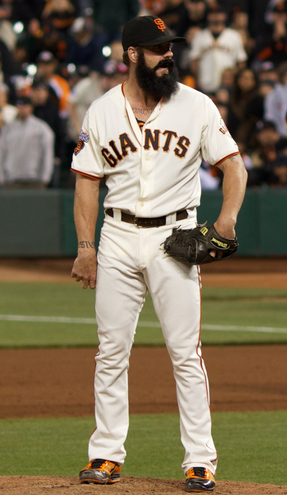 Closer Brian Wilson stands ready to deliver his pitch during the 9th inning of a July 7, 2011 Giants-Padres game.